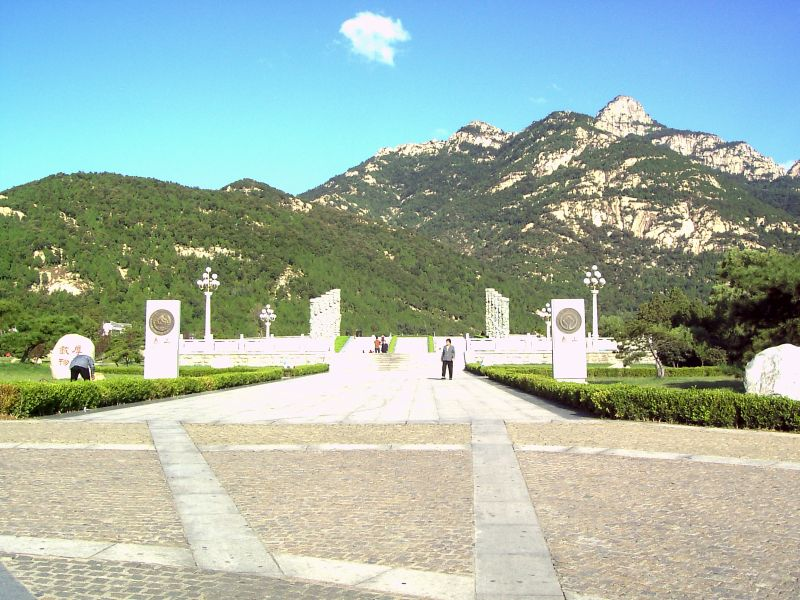 Taishan China